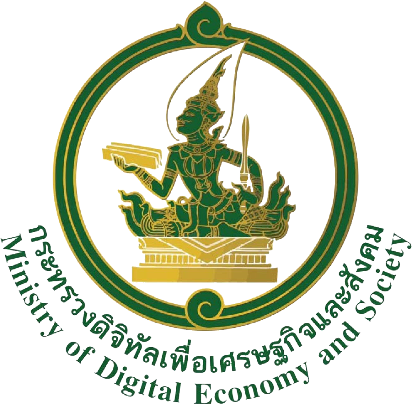 Official emblem of the Ministry of Digital Economy and Society, Kingdom of Thailand.